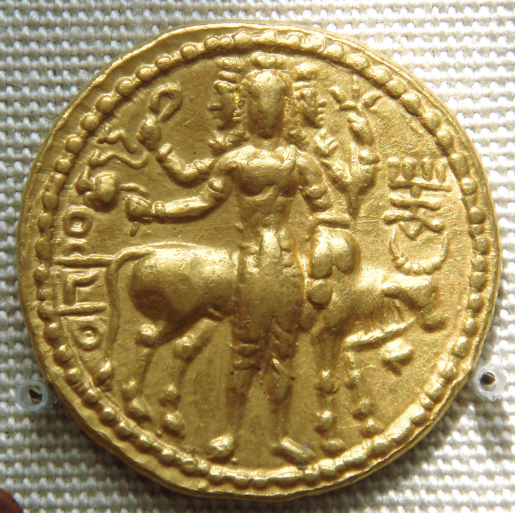 Kanihka I coin with Oisho Shiva